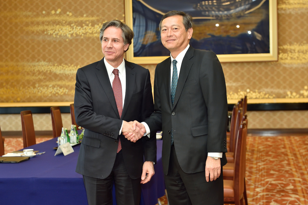 Deputy Secretary of State Antony "Tony" Blinken poses for a photo with Japanese Vice Foreign Minister Akitaka Saiki before their bilateral meeting in Tokyo, Japan, on April 18, 2016. [U.S. Embassy Tokyo photo/ Public Domain]